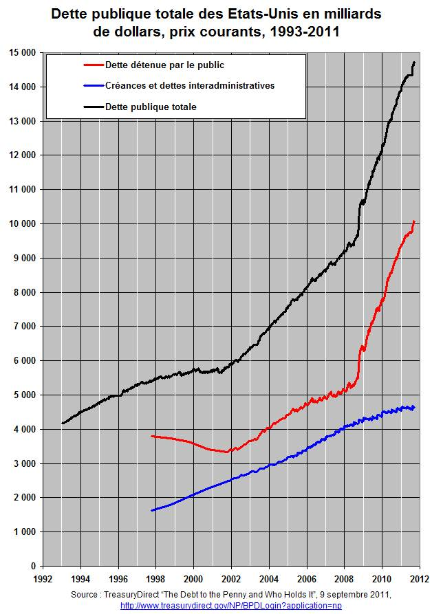 Total public debt outstanding, United States, 1993-2011 (billions U.S $)